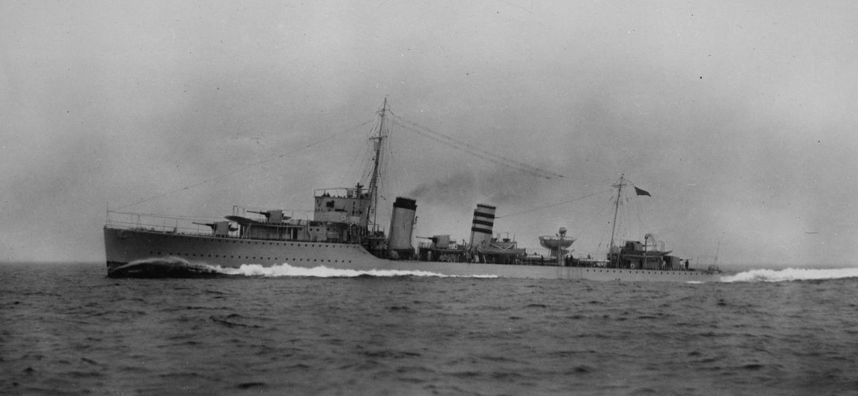 British destroyer HMS CODRINGTON underway at speed during Contractors' sea trials